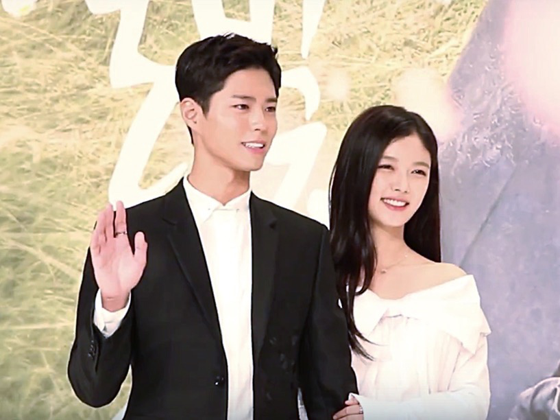 Cast of Love in the Moonlight at Press Conference on August 18, 2016.